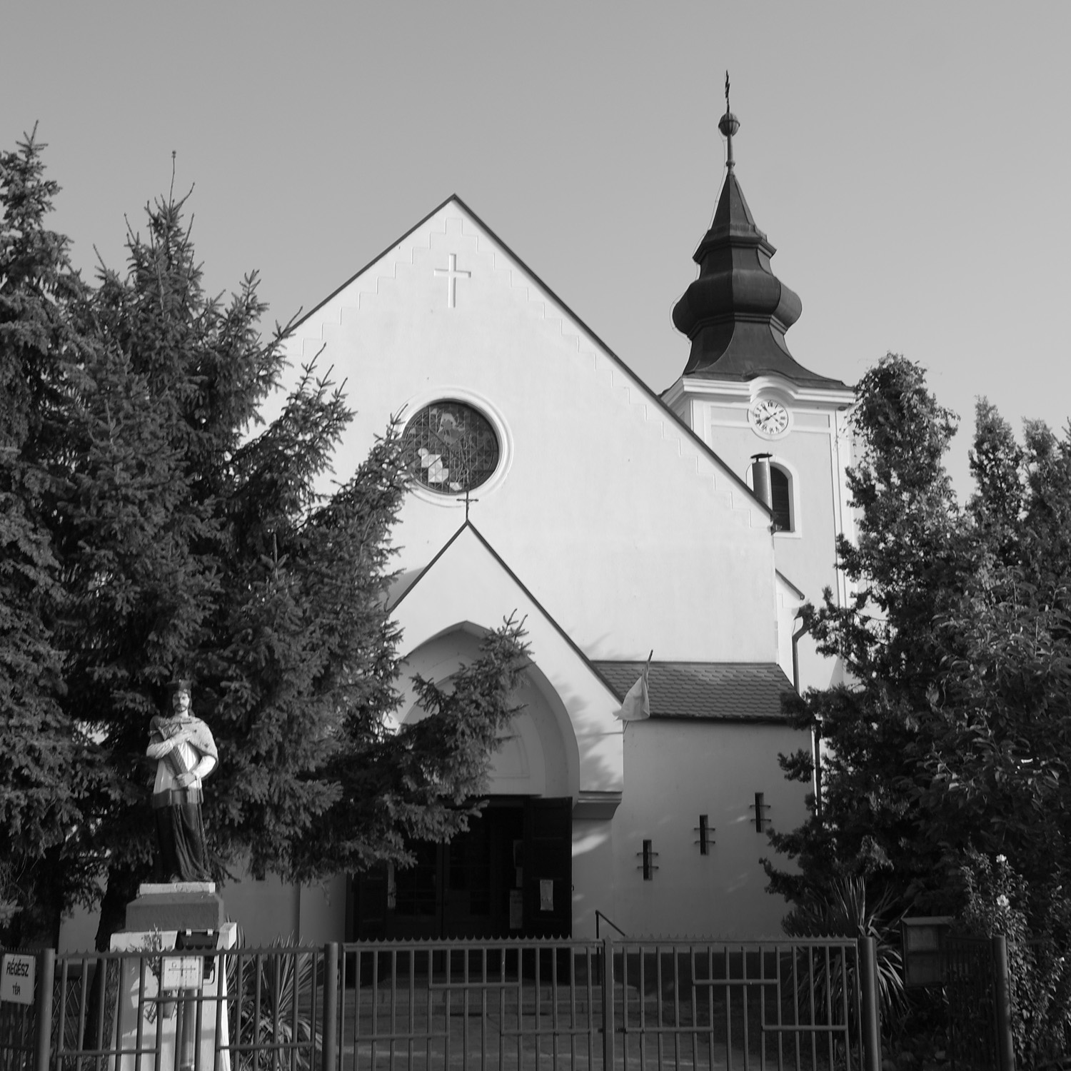 A XVIII. századi Római-Katolikus Szent-Mihály templom Tápén.